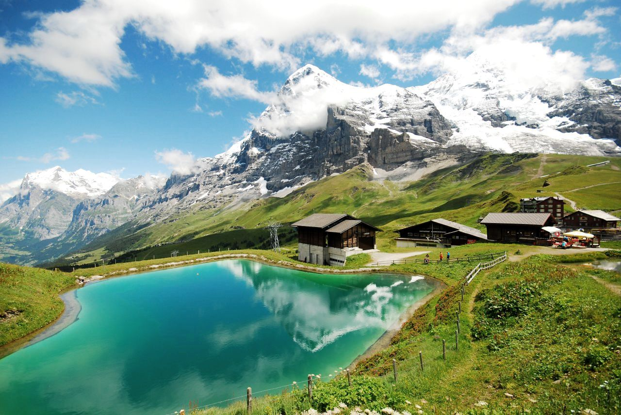 Kleine Scheidegg, Eiger